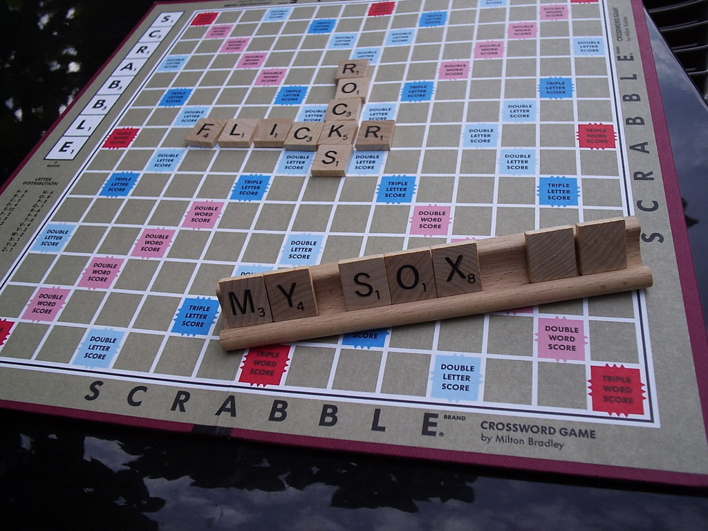 Scrabble Taken on: 2004-07-17 08:29:53